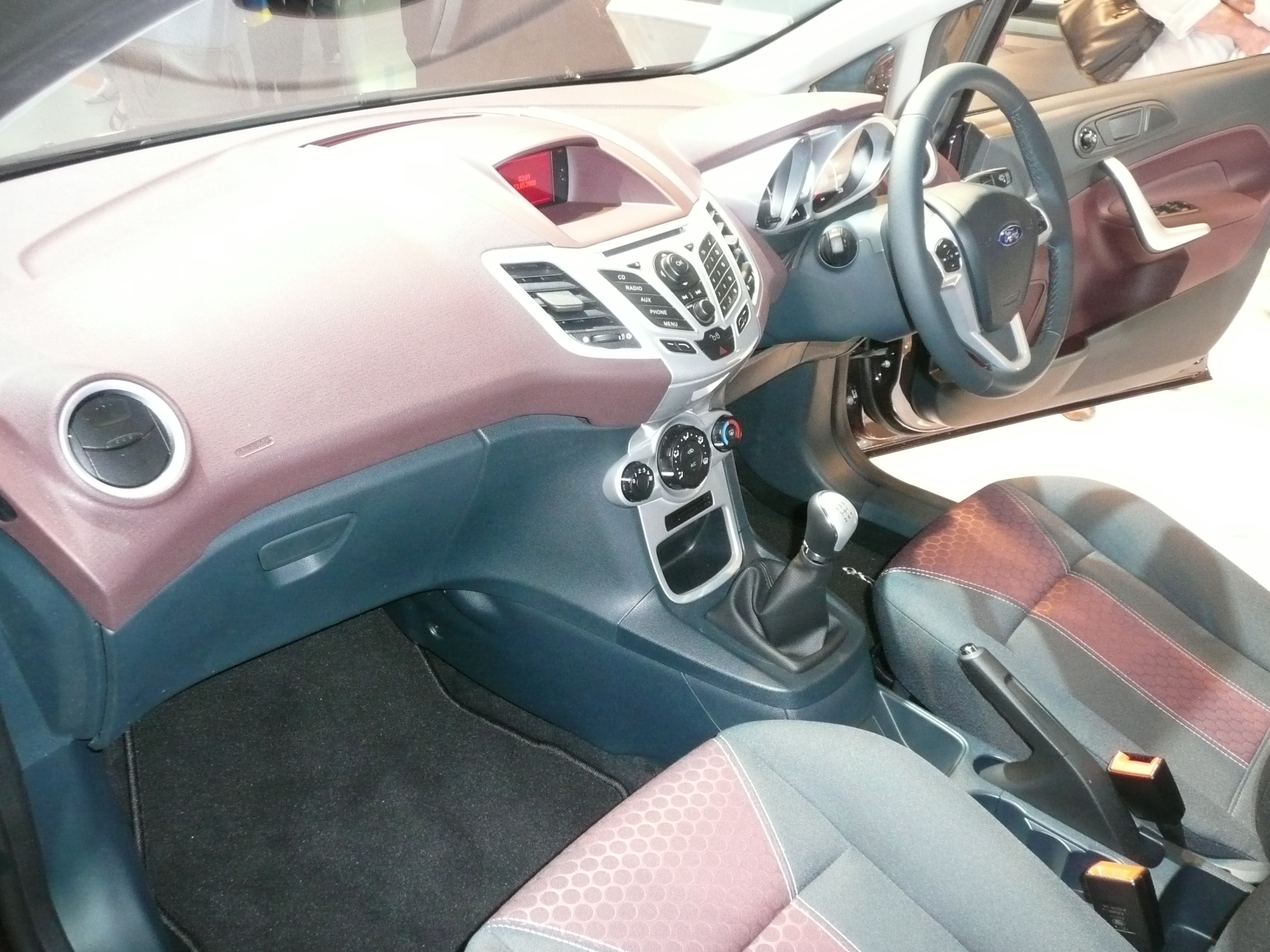 2008 Ford Fiesta (WS) Zetec 5-door hatchback. Photographed at the 2008 Australian International Motor Show, Sydney, New South Wales, Australia.